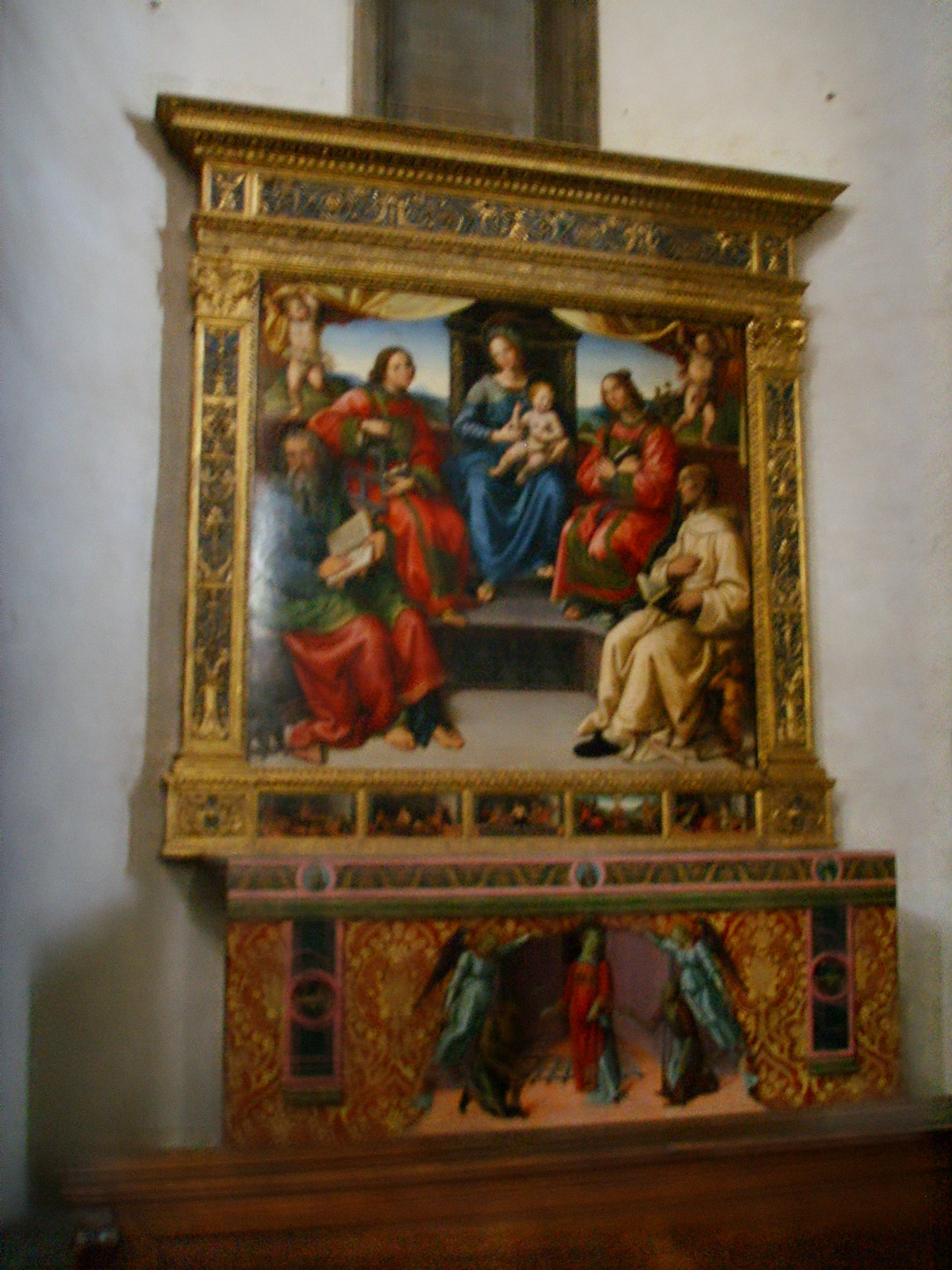 Santo Spirito church, painting by Raffaellino del Gardo, Madonna, in Florence Italy